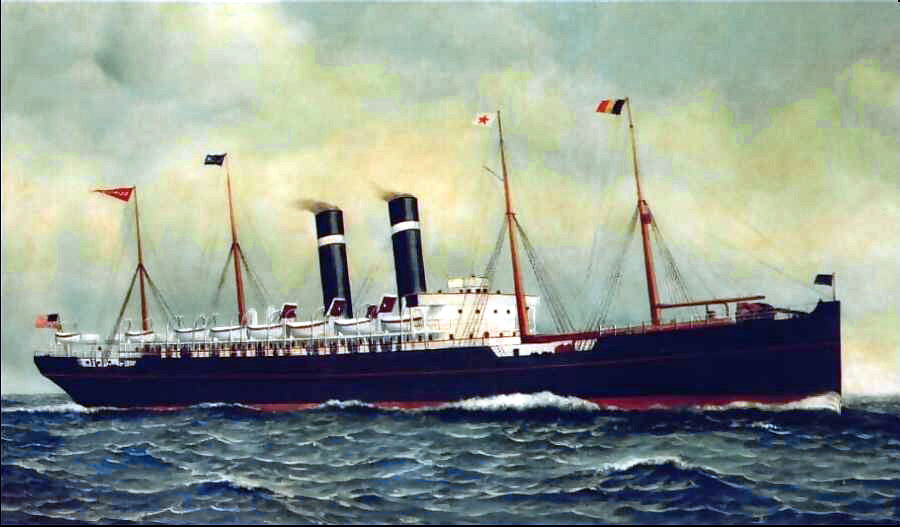 SS Kroonland, oil on canvas painting by Antonio Jacobsen